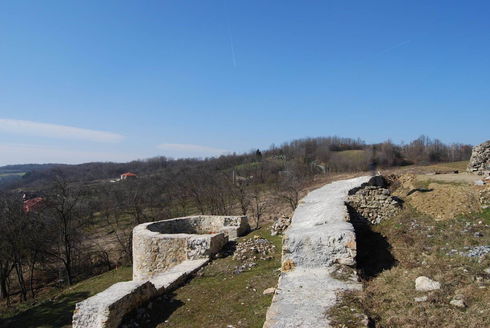 Sirač village, Croatia. Ruins of castle